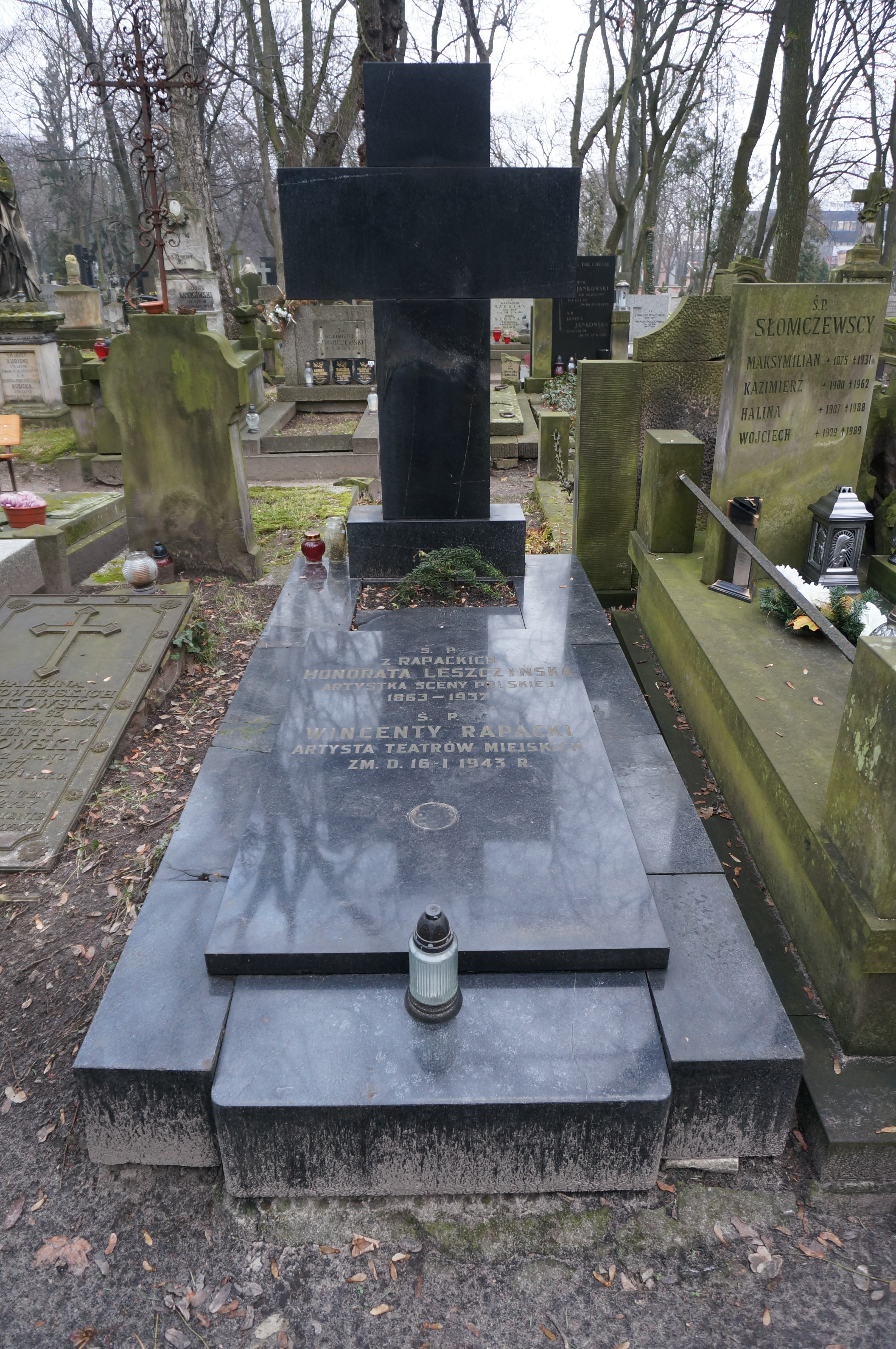 The grave of Honorata Leszczyńska at the Powązki Cemetery (section A, row 4, grave 28)